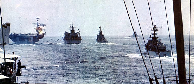 The U.S. Navy aircraft carrier USS Ranger (CVA-61) is refueled off Korea in April 1969. In response to the 1969 EC-121 shootdown incident on 15 April 1969, the United States assembled Task Force 71 off Korea, consisting of the aircraft carriers USS Hornet (CVS-12), USS Ticonderoga (CVA-14), USS Ranger (CVA-61) and USS Enterprise (CVAN-65), the battleship USS New Jersey (BB-62), visible in the background, three cruisers, 22 destroyers, five submarines and 200 aircraft.